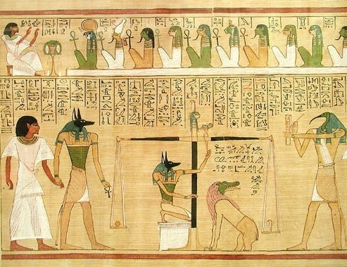 Weighing of the heart scene, with Ammit sitting, from the book of the dead of Hunefer. From the source: "The judgement, from the papyrus of the scribe Hunefer. 19th Dynasty. Hunefer is conducted to the balance by jackal-headed Anubis. The monster Ammut crouches beneath the balance so as to swallow the heart should a life of wickedness be indicated. EA9901." Anubis conducts the weighing on the scale of Maat, against the feather of truth. The ibis-headed Thoth, scribe of the gods, records the result. If his heart is lighter than the feather, Hunefer is allowed to pass into the afterlife. If not, he is eaten by the waiting chimeric devouring creature Ammit, which is composed of the deadly crocodile, lion, and hippopotamus.